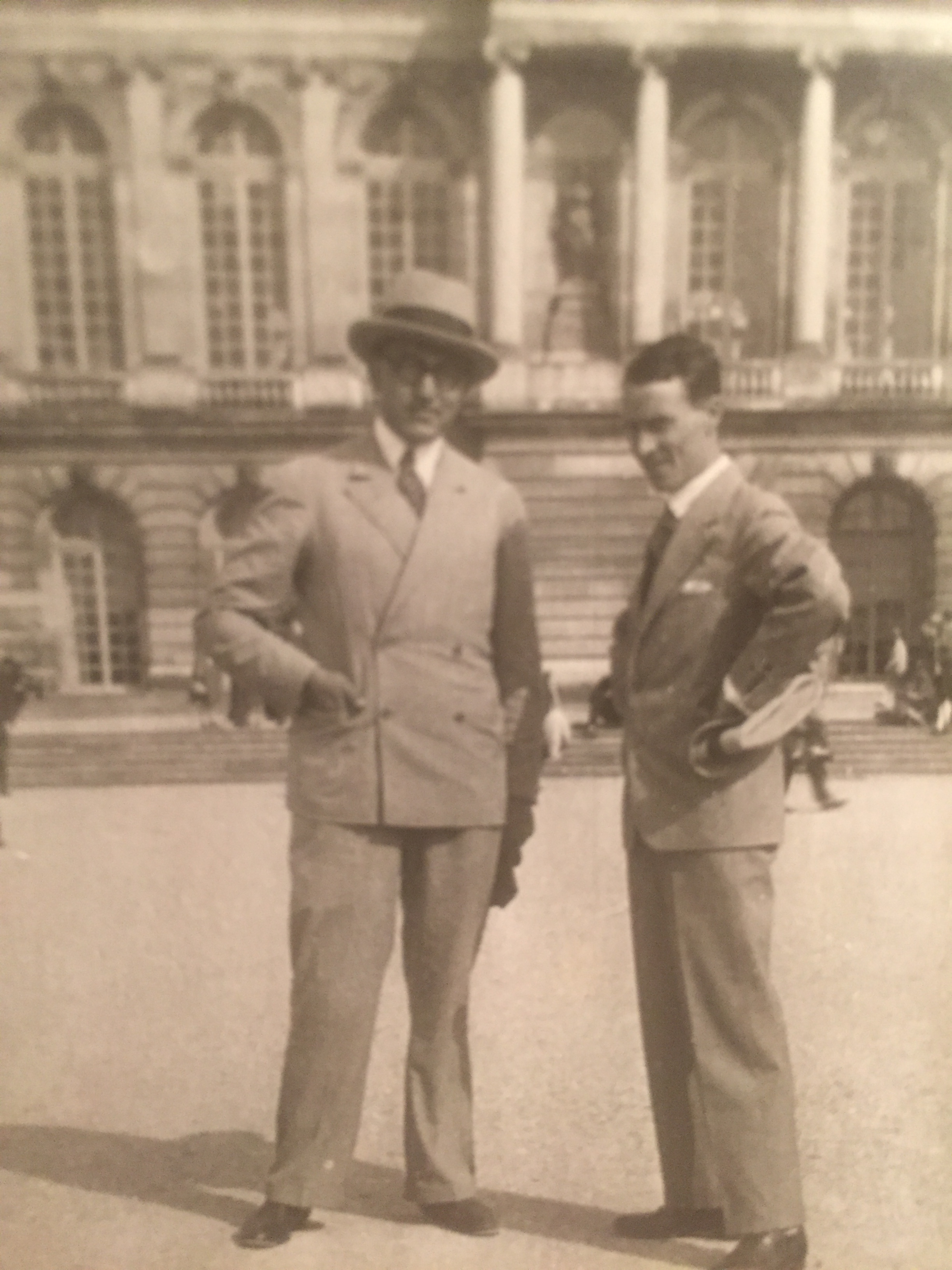 Marino Tartaglia (right) and his nephew Micha V. Simitch (left) in Vienna, circa 1923